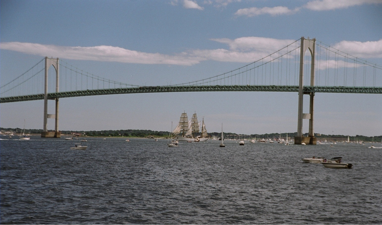 The Claiborne Pell Newport Bridge in Rhode Island, with a tall ship passing underneath.